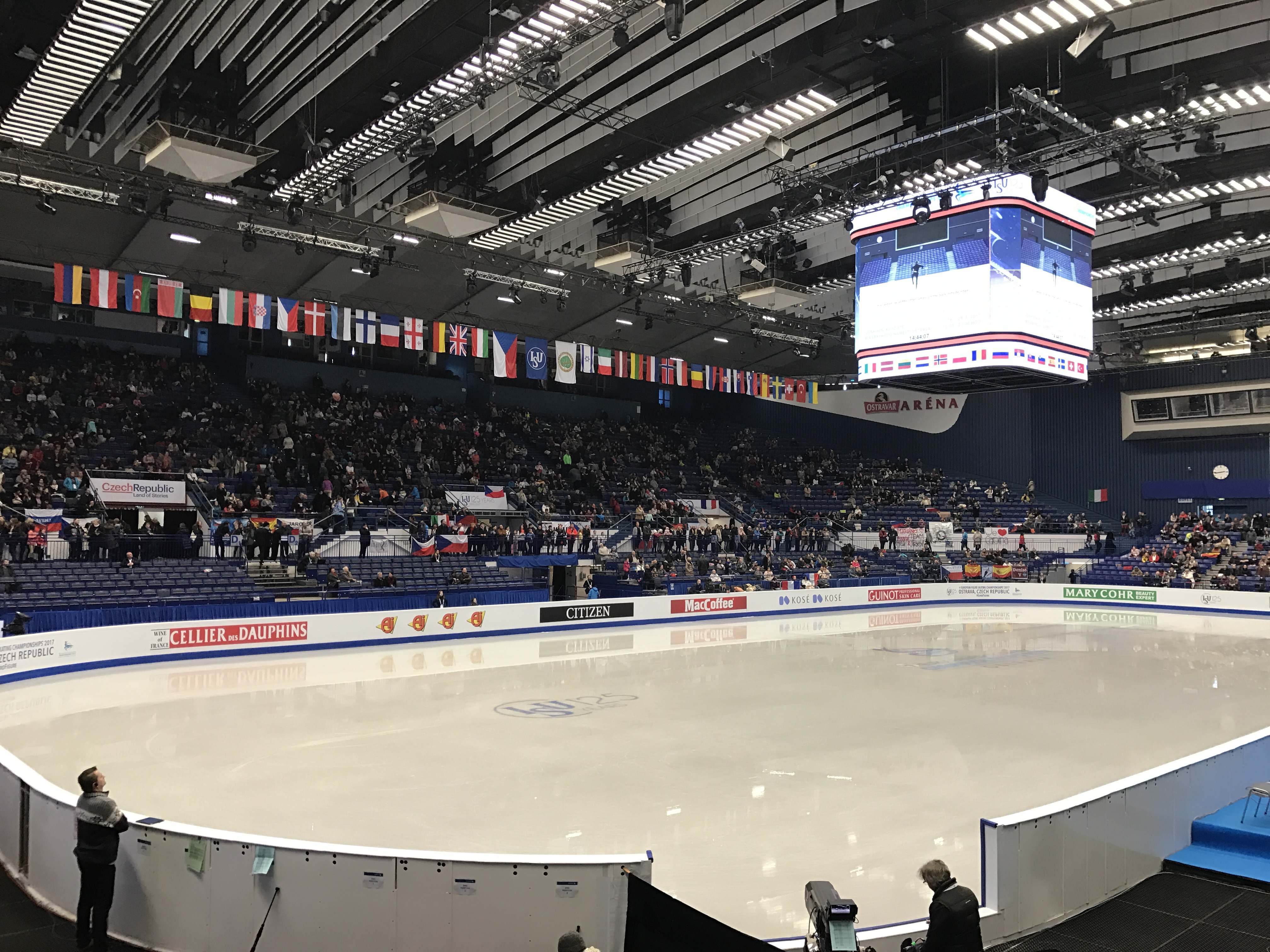 Ostravar arena inside during the break